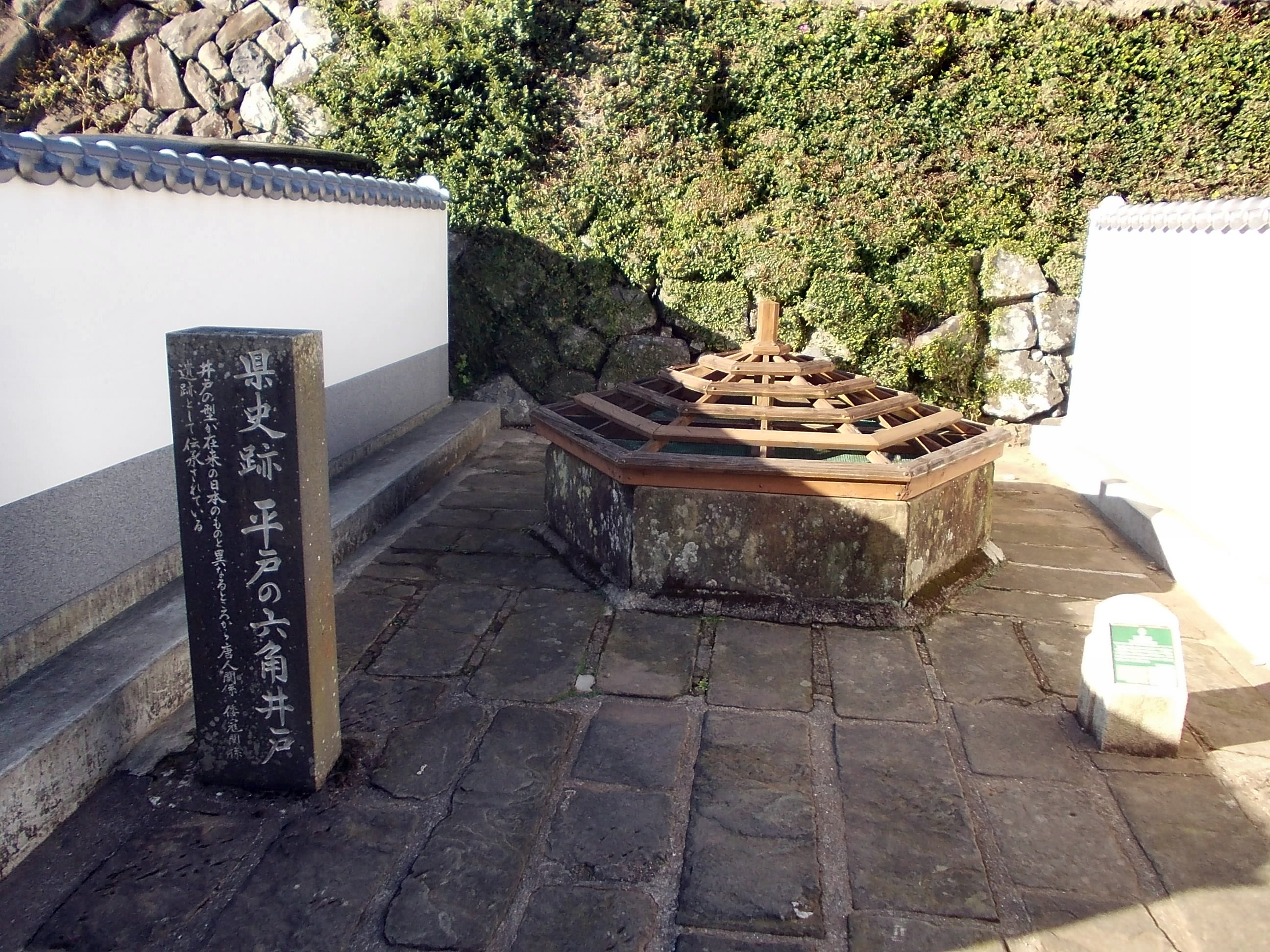 Hexagon Well in Hirado, Nagasaki, Japan